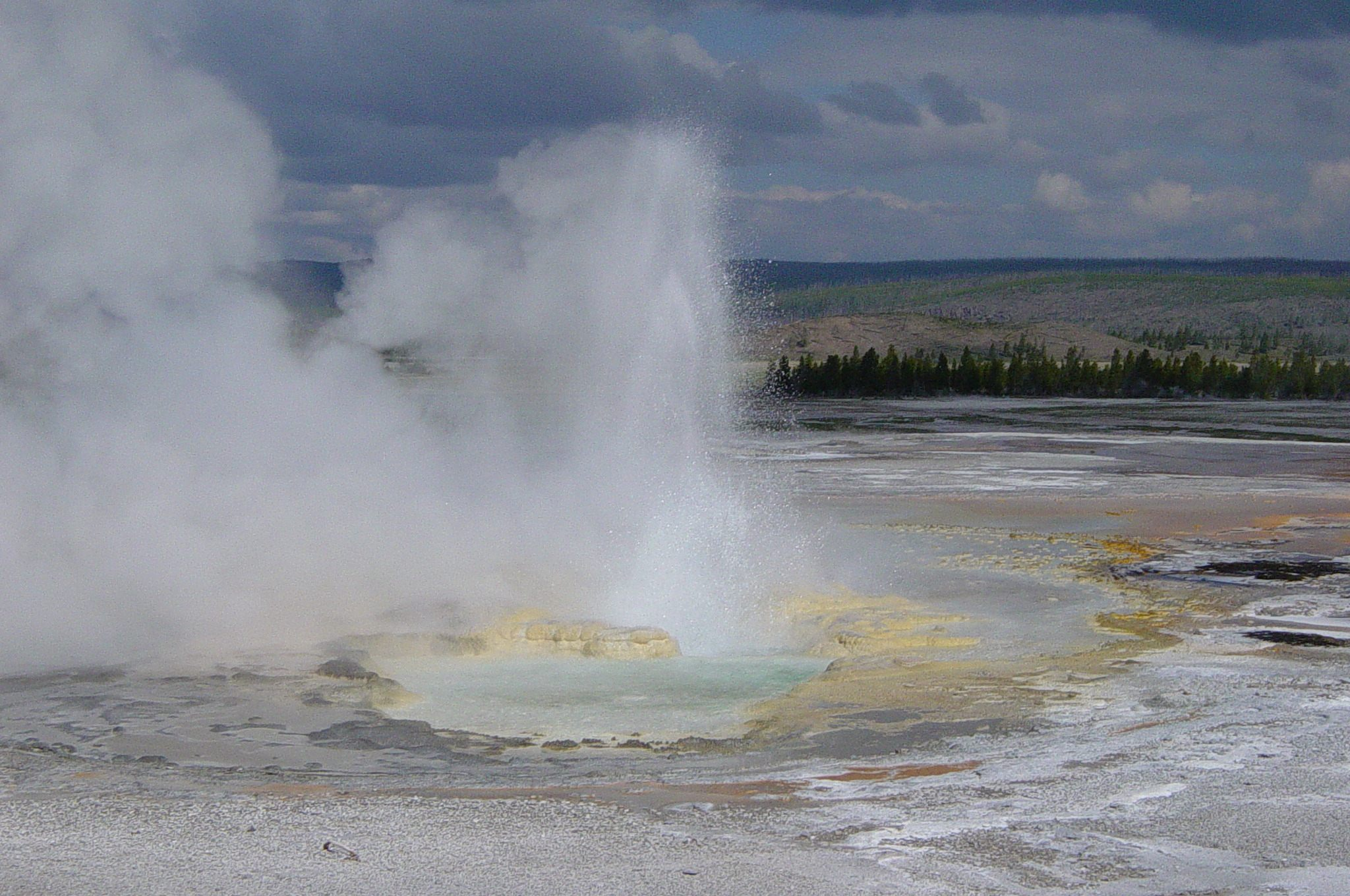 Photo taken in the Yellowstone area.